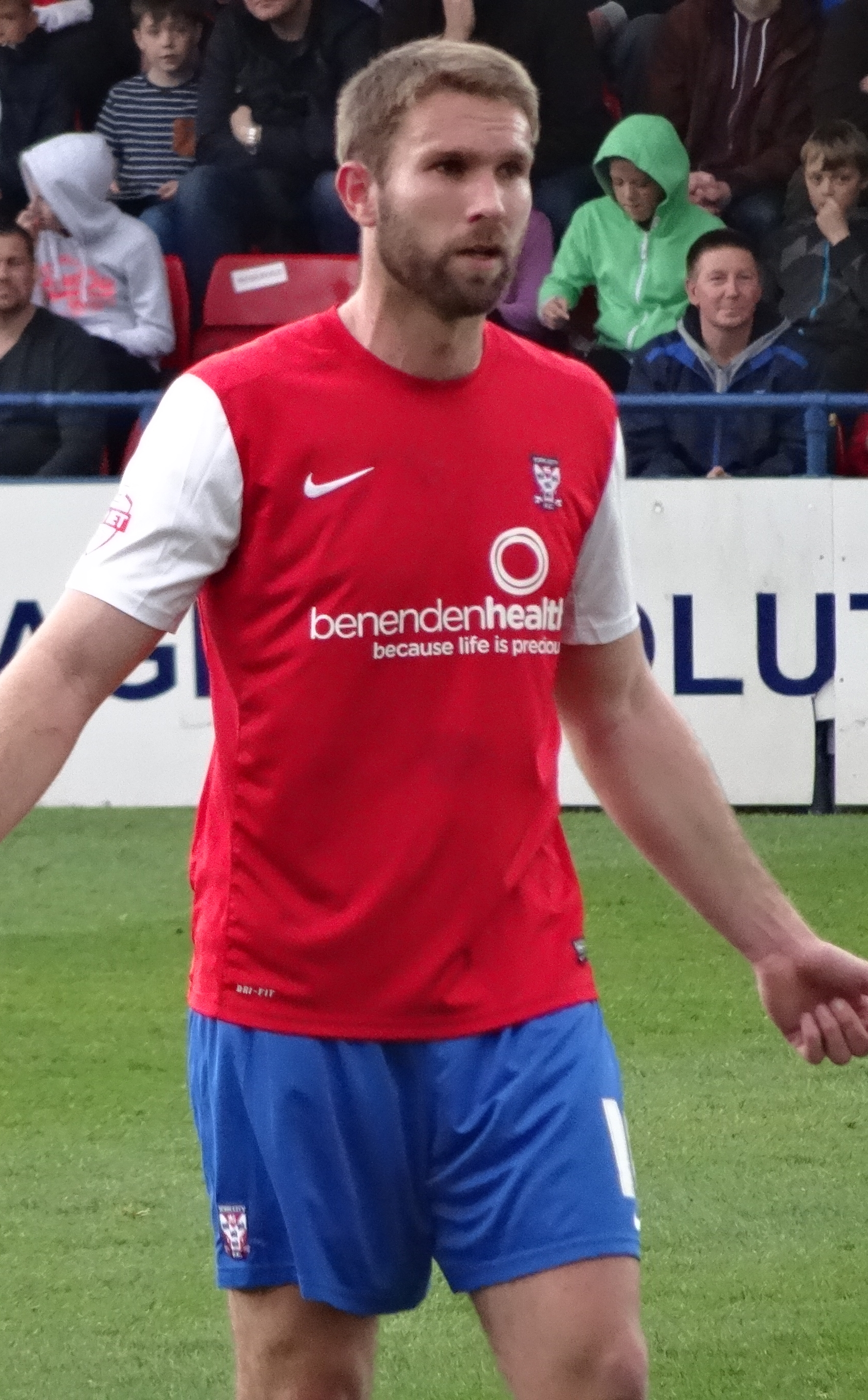 John McCombe playing for York City against Newport County at Bootham Crescent, York on 26 April 2014